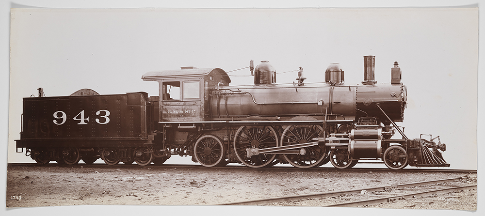 Title: [Chicago, Milwaukee, St. Paul, and Pacific, No. 943] Creator: H. Tryon Photo Date: ca. 1860-1905 Part Of: Locomotive Works Physical Description: 1 photographic print: albumen; on linen mount; 31 x 73 cm File: ag1986_0393x_7_4_1749_opt.jpg Rights: Please cite DeGolyer Library, Southern Methodist University when using this file. A high-resolution version of this file may be obtained for a fee. For details see the web page. For other information, . For more information and to view the image in high resolution, View Railroads